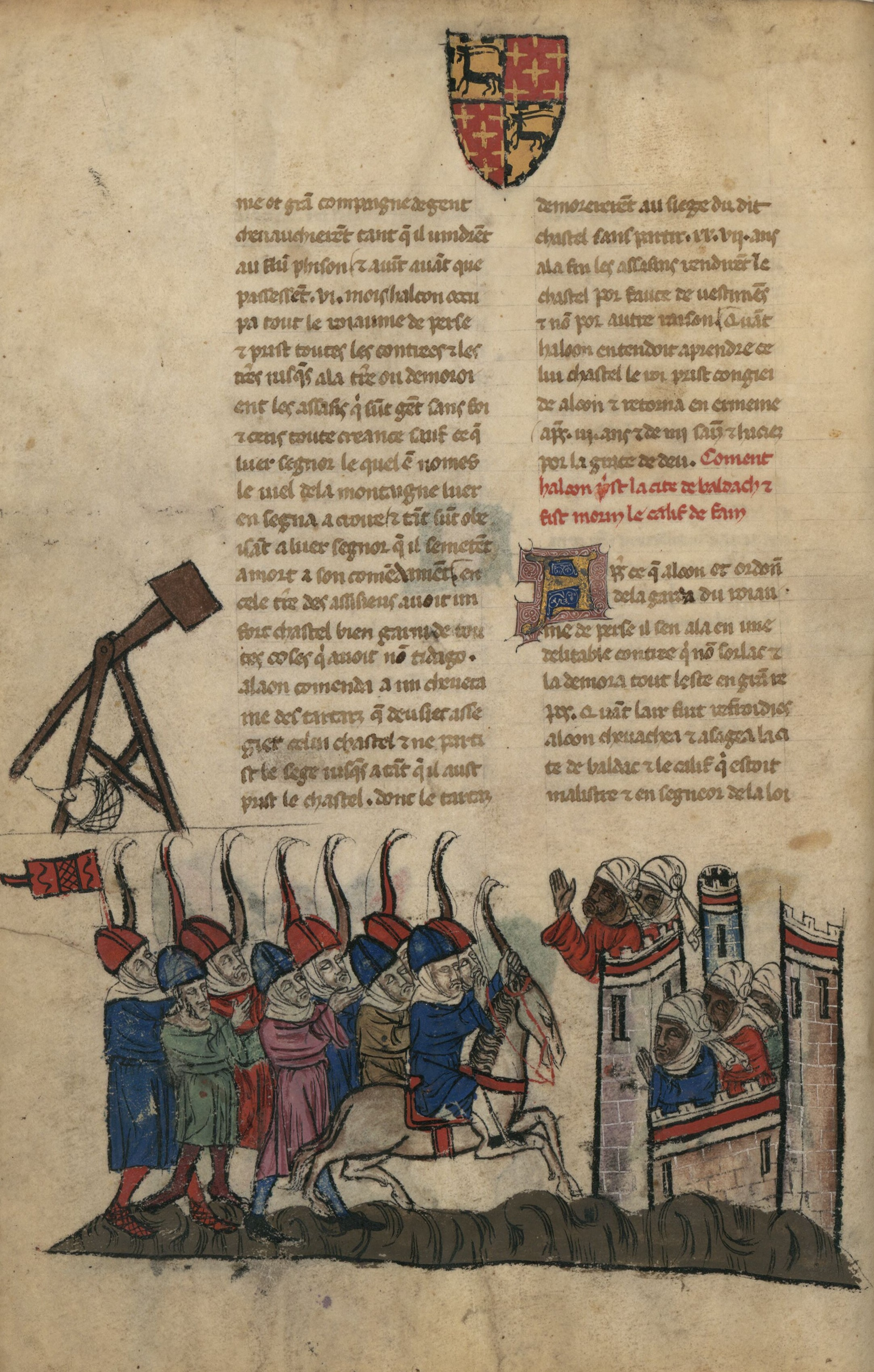 Mongolian siege of Gerdkuh. Hayton of Corycus, Fleur des histoires d'orient.